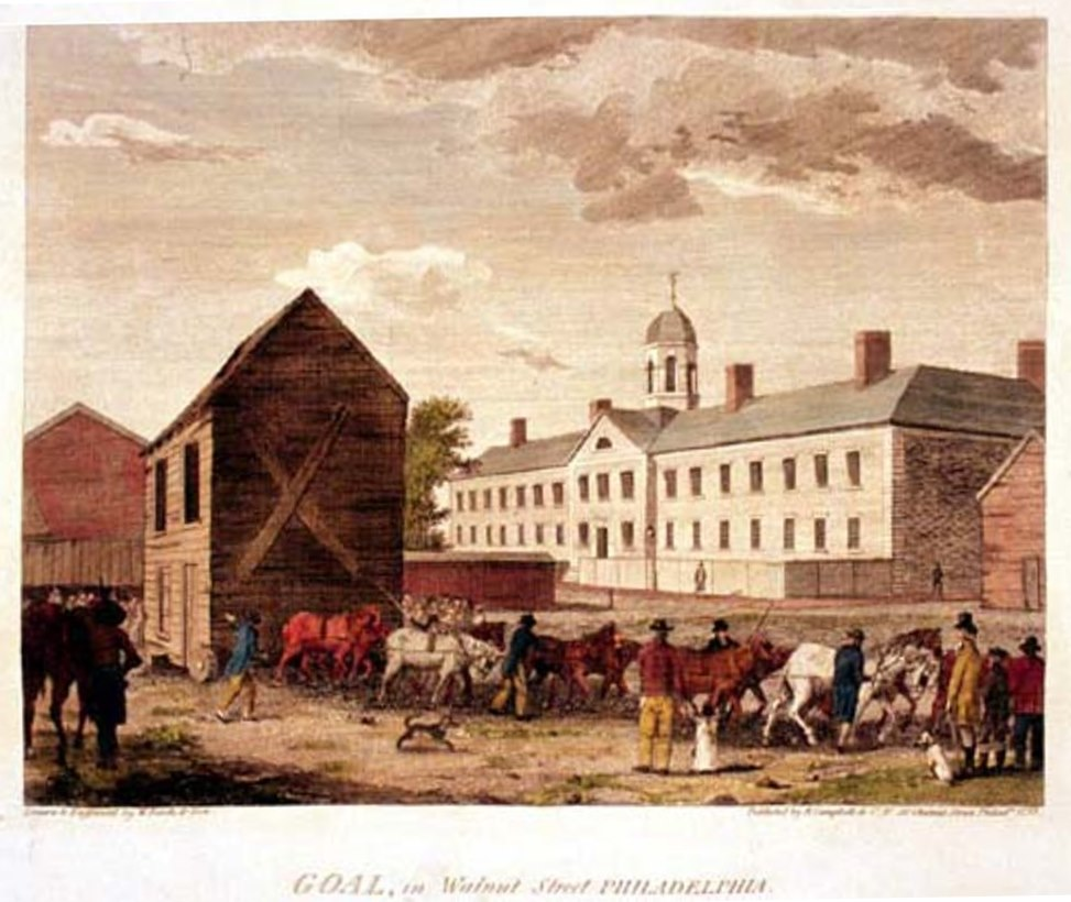 "Goal [sic Gaol] in Walnut Street, Philadelphia." Plate 24 from W. Birch & Son, "The city of Philadelphia : in the state of Pennsylvania, North America; as it appeared in the year 1800, consisting of twenty eight plates / drawn and engraved by W. Birch & Son." (Springland Cot, near Neshaminy Bridge on the Bristol road, Pa. : W. Birch, 1800).